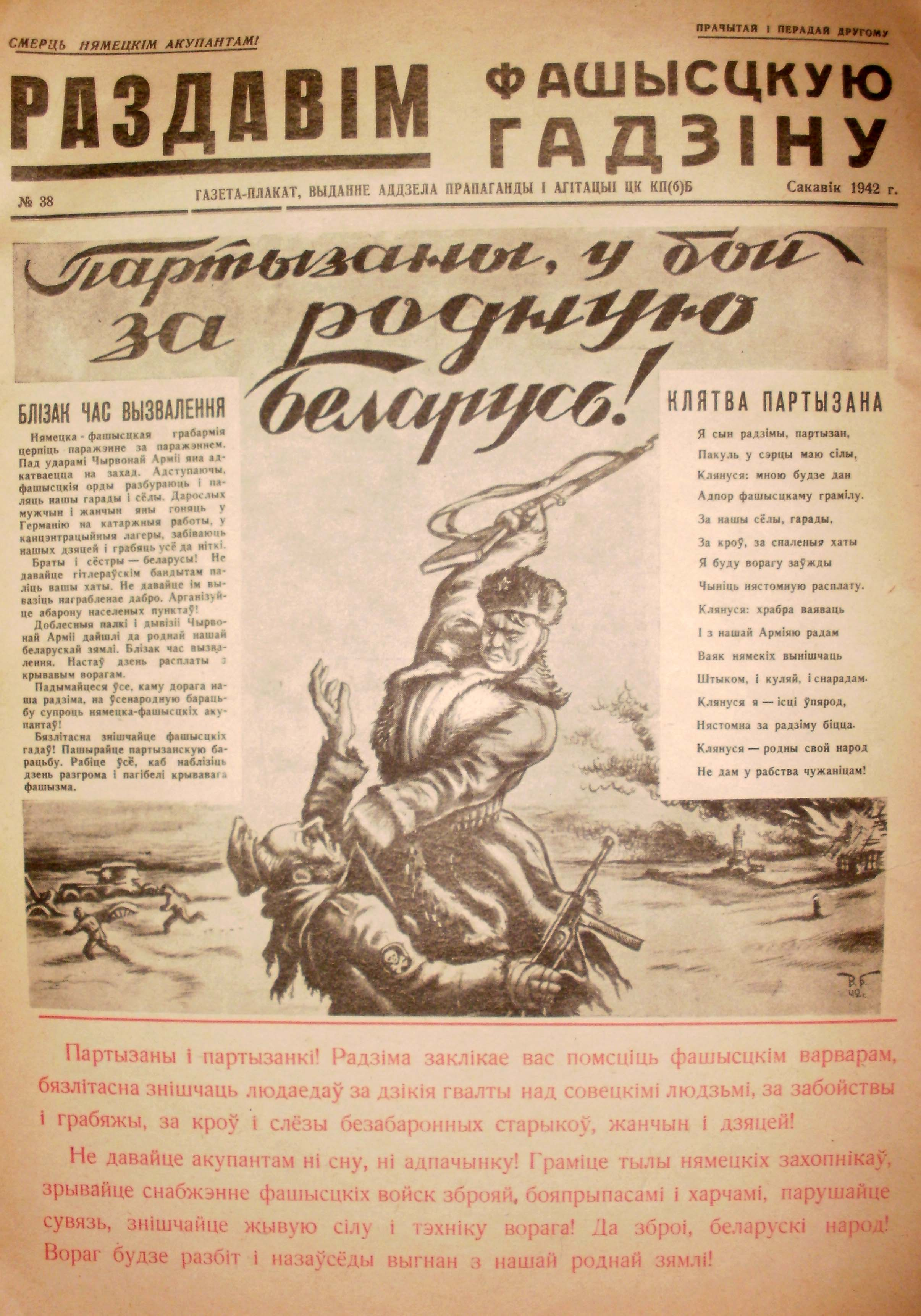 Soviet anti-nazi newspaper, World War II, March, 1942